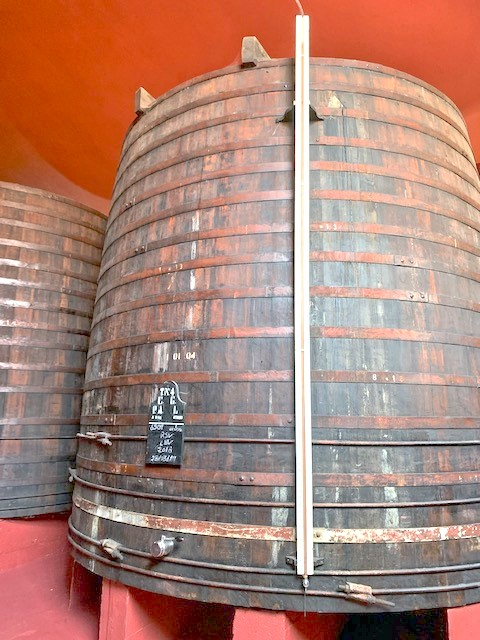 Churchill's Port Wine- large barrel